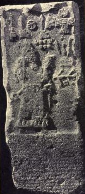 Picture of the Saba'a Stele, from "Reliefstele Adadniraris 3 aus Saba'a und Semiramis (1916)"